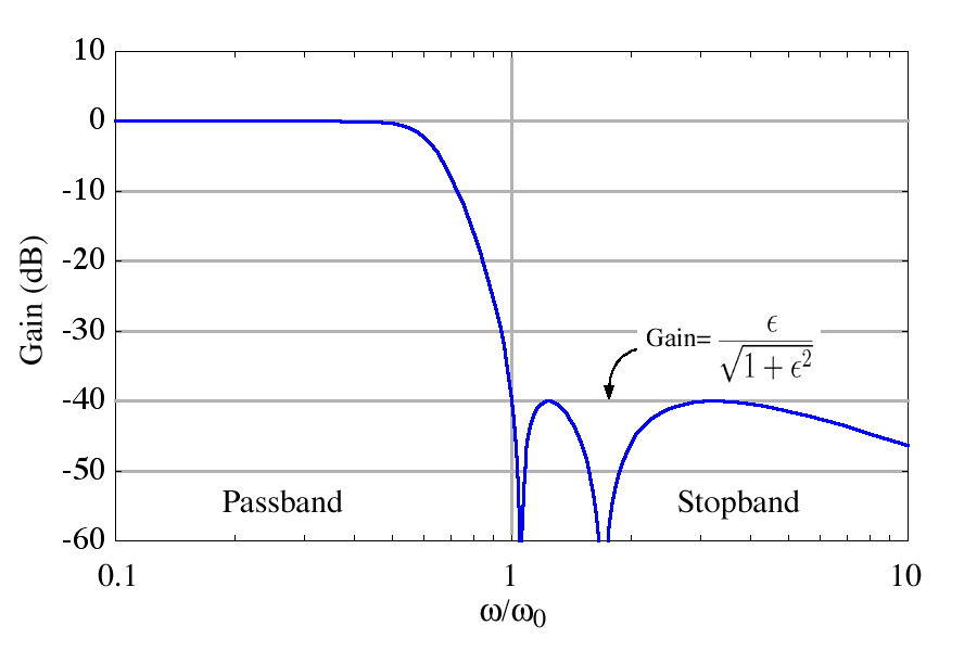 Gain of a fourth order type II Chebyshev electronic filter as a function of normalized frequency, with ε = 0.01